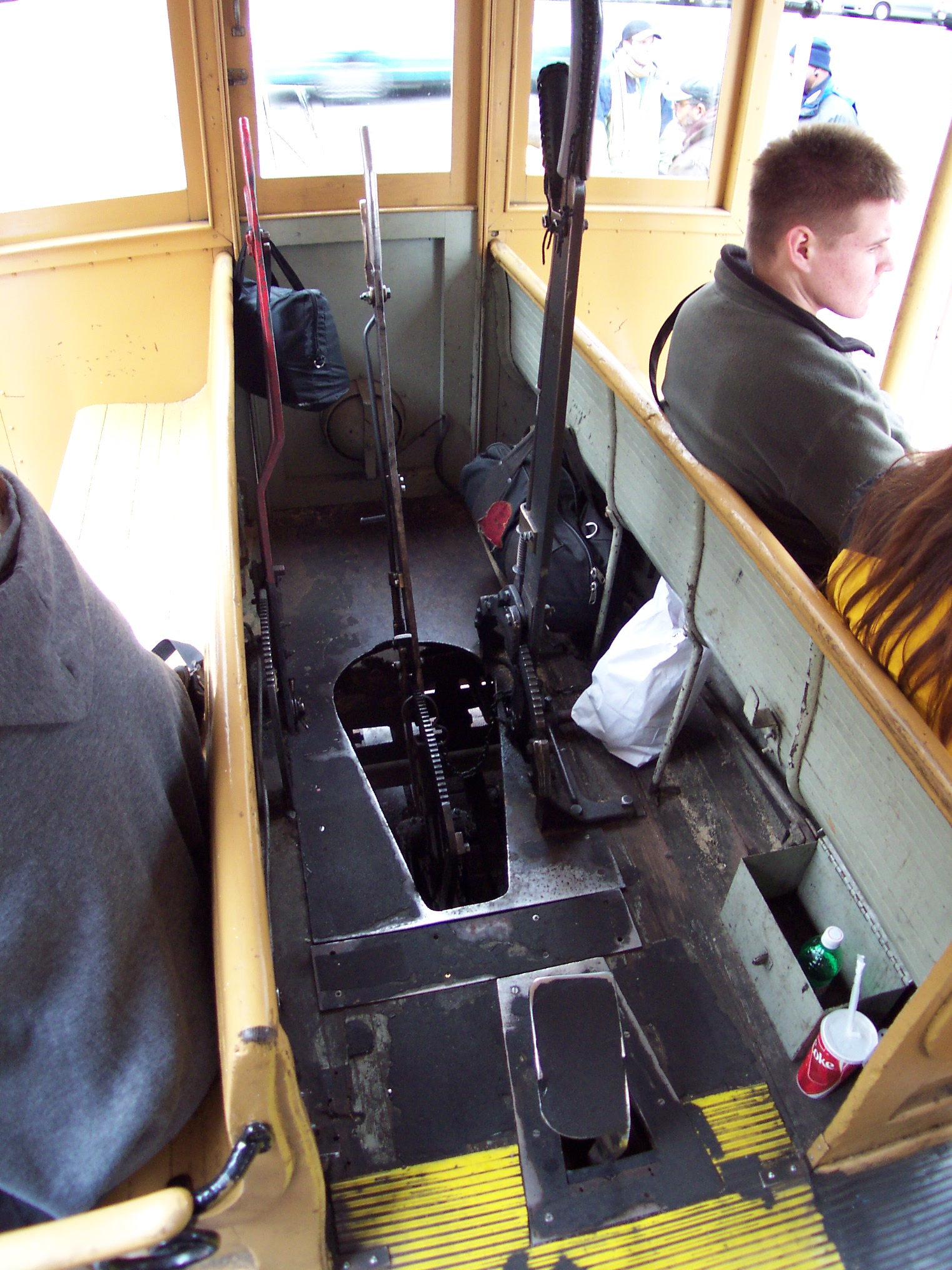 Cable car controls. Photograph by Robert A. Estremo, copyright 2004.